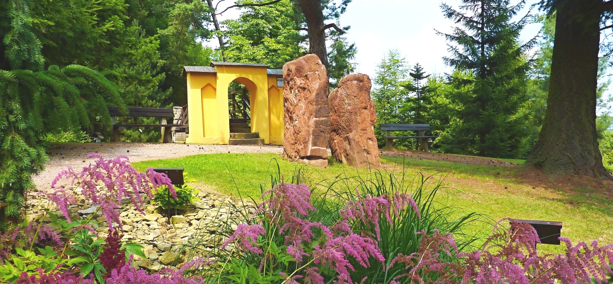 Vstup do horní části Arboreta Žampach přes dřevěnou lávku s pohledem na čertovy kameny.